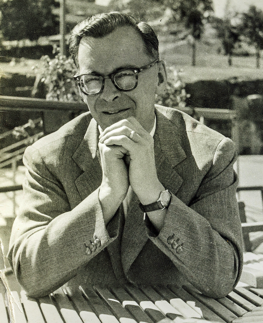 Finnish furniture designer Carl-Gustaf Hiort af Ornäs (1911–1996)